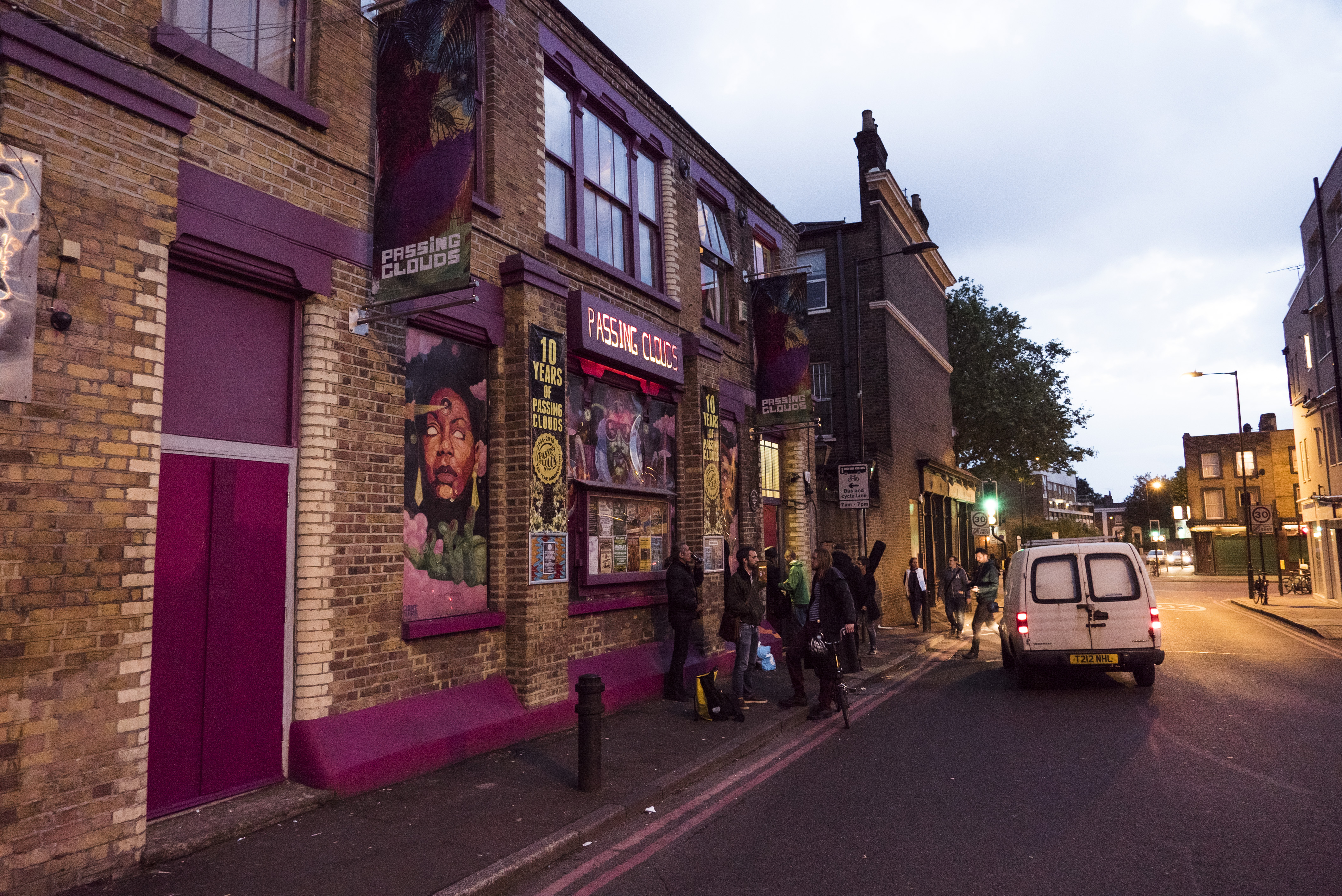 The outside of Passing Clouds in Dalston